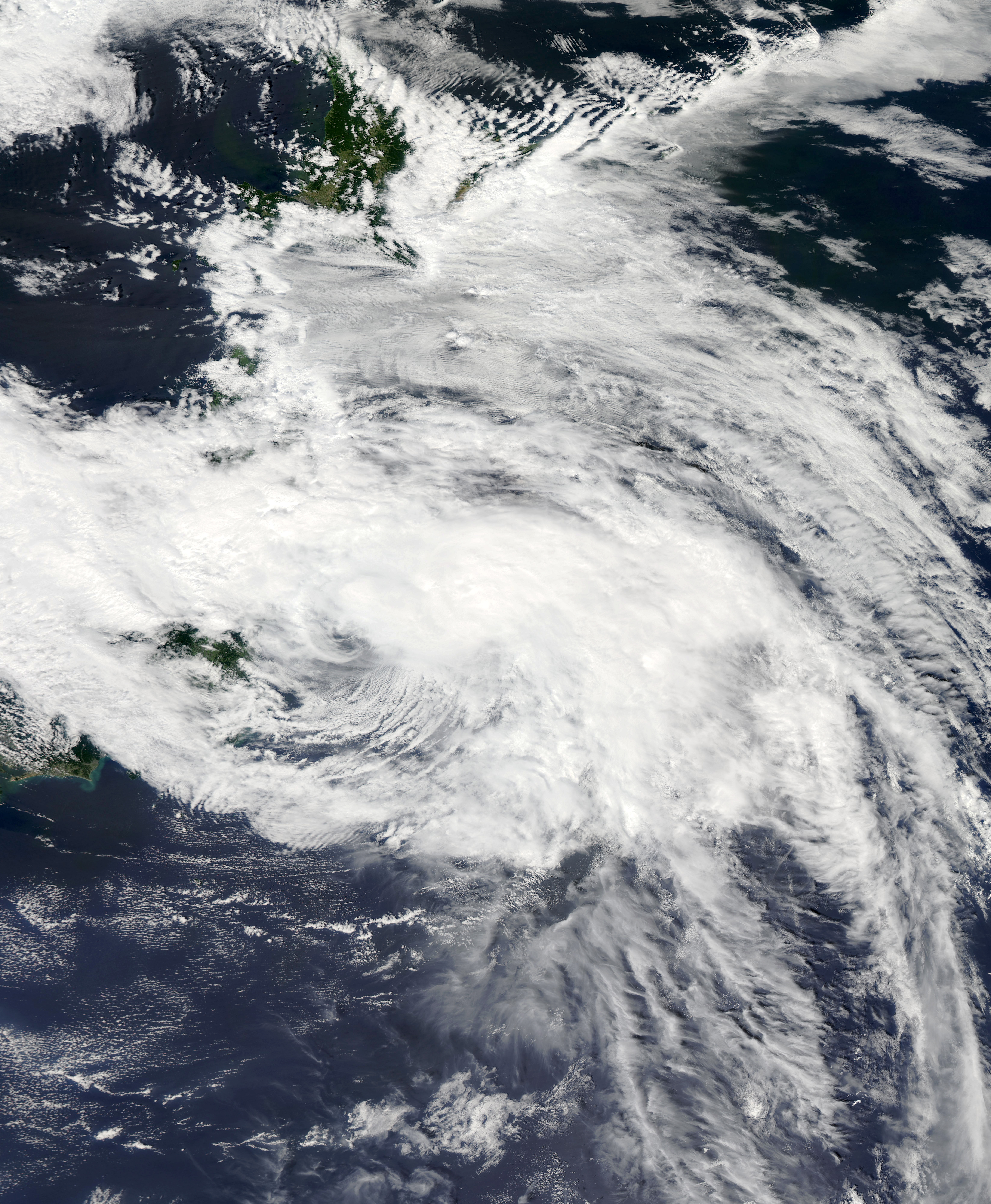 Typhoon Lionrock skirting Japan before landfall over Tohoku region on August 30, 2016